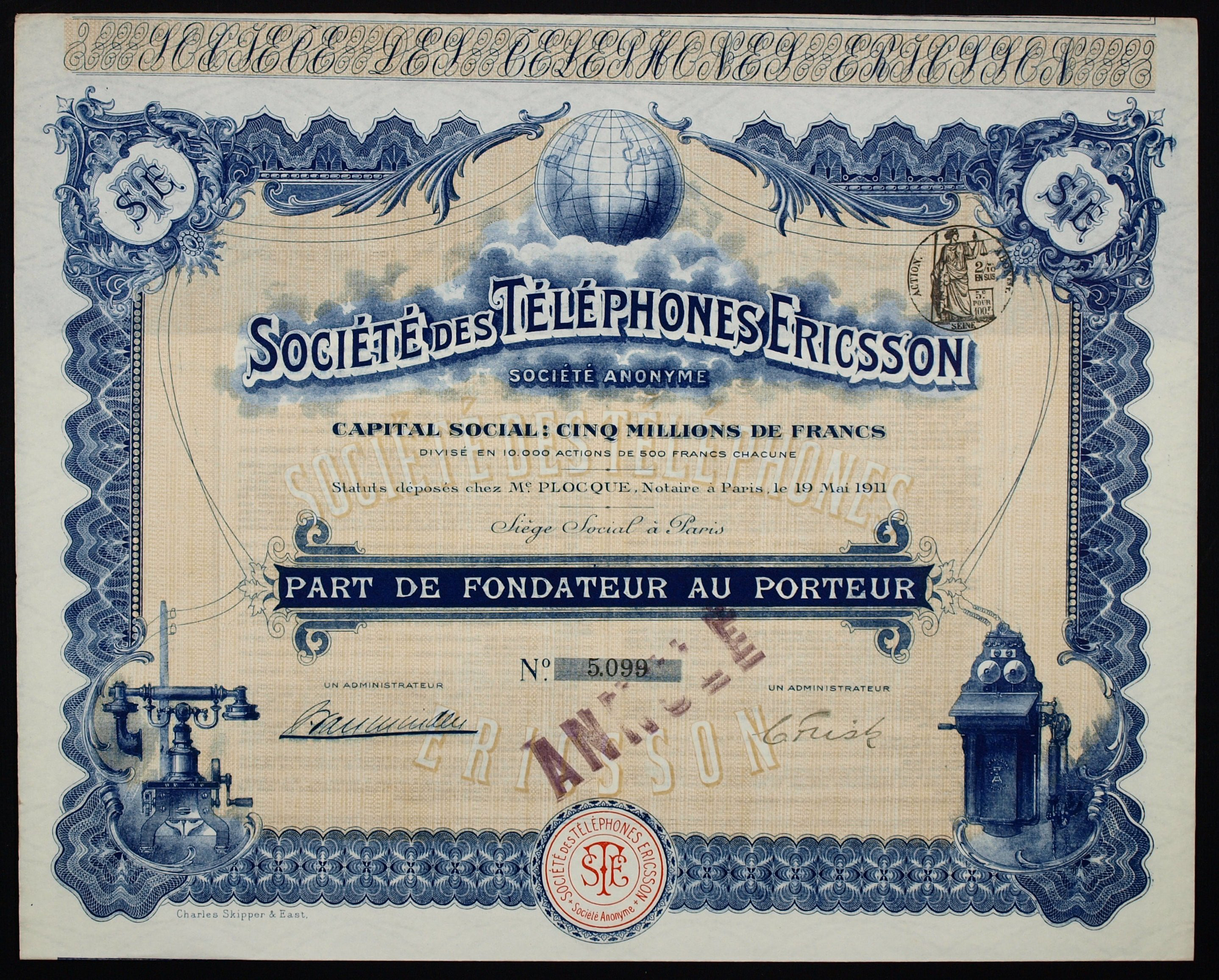 Part de Fondateur of the Soc. des Téléphones Ericsson, issued 19. May 1911